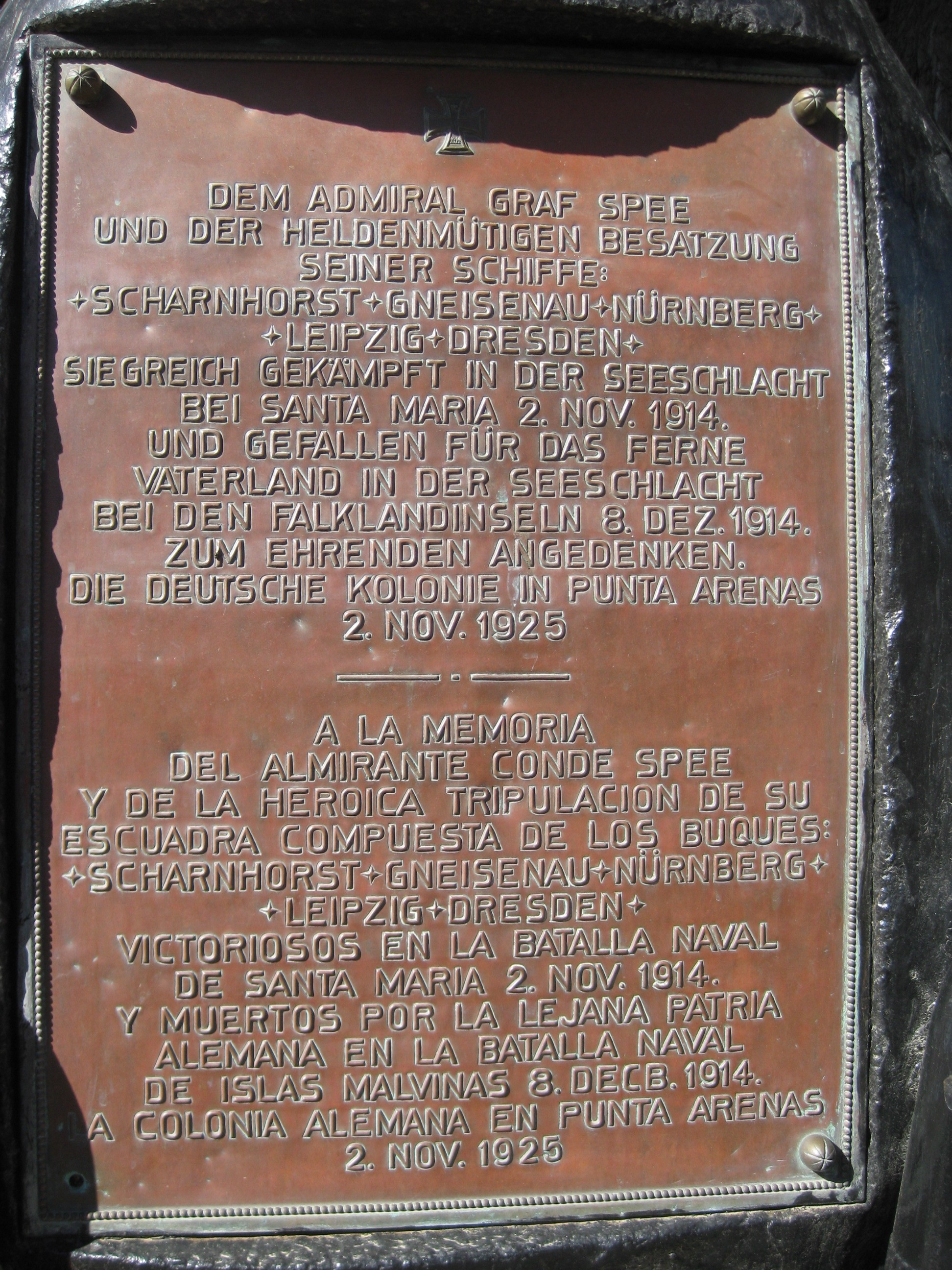 Memorial for the crews of Admiral Graf Spee's ships, which were sunk off the Falkland Islands in 1914, on the graveyard of Punto Arenas